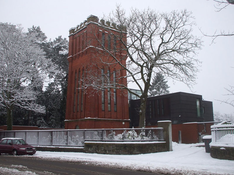 Water tower converted by Loyn & Co. Architects into residential occupation for a private client, Cyncoed, Cardiff (2007)